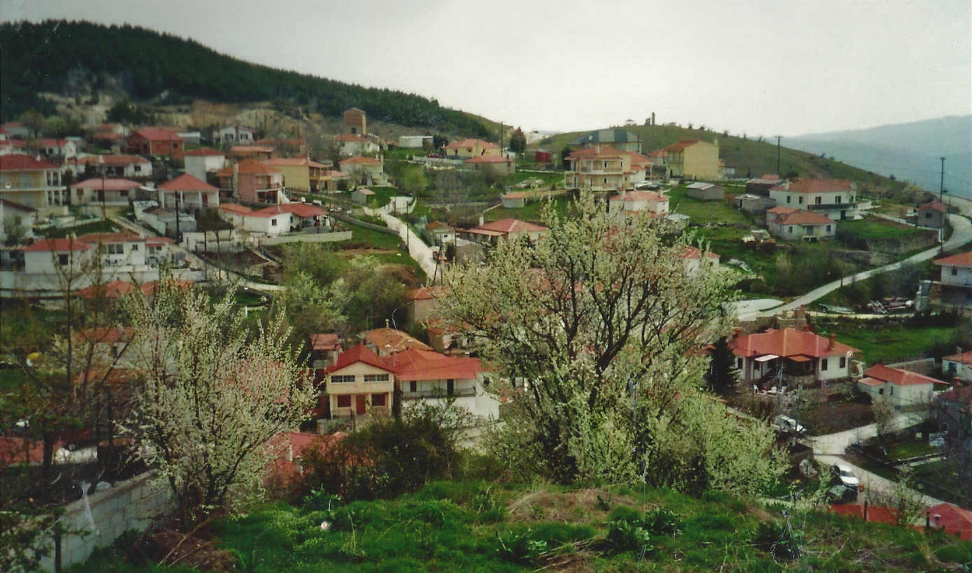 Mavreli, Trikala, Greece